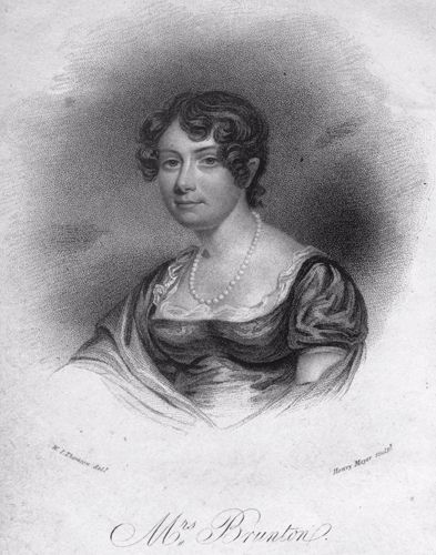 Portrait of Mary Brunton (1778-1818) from the 2nd edition (1820) of Emmeline